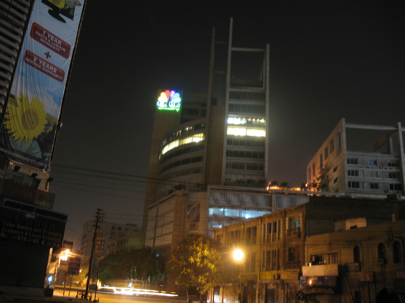 CNBC Pakistan HQ in Karachi, SindhTechno City